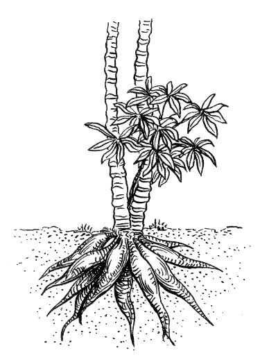 line art drawing of cassava.